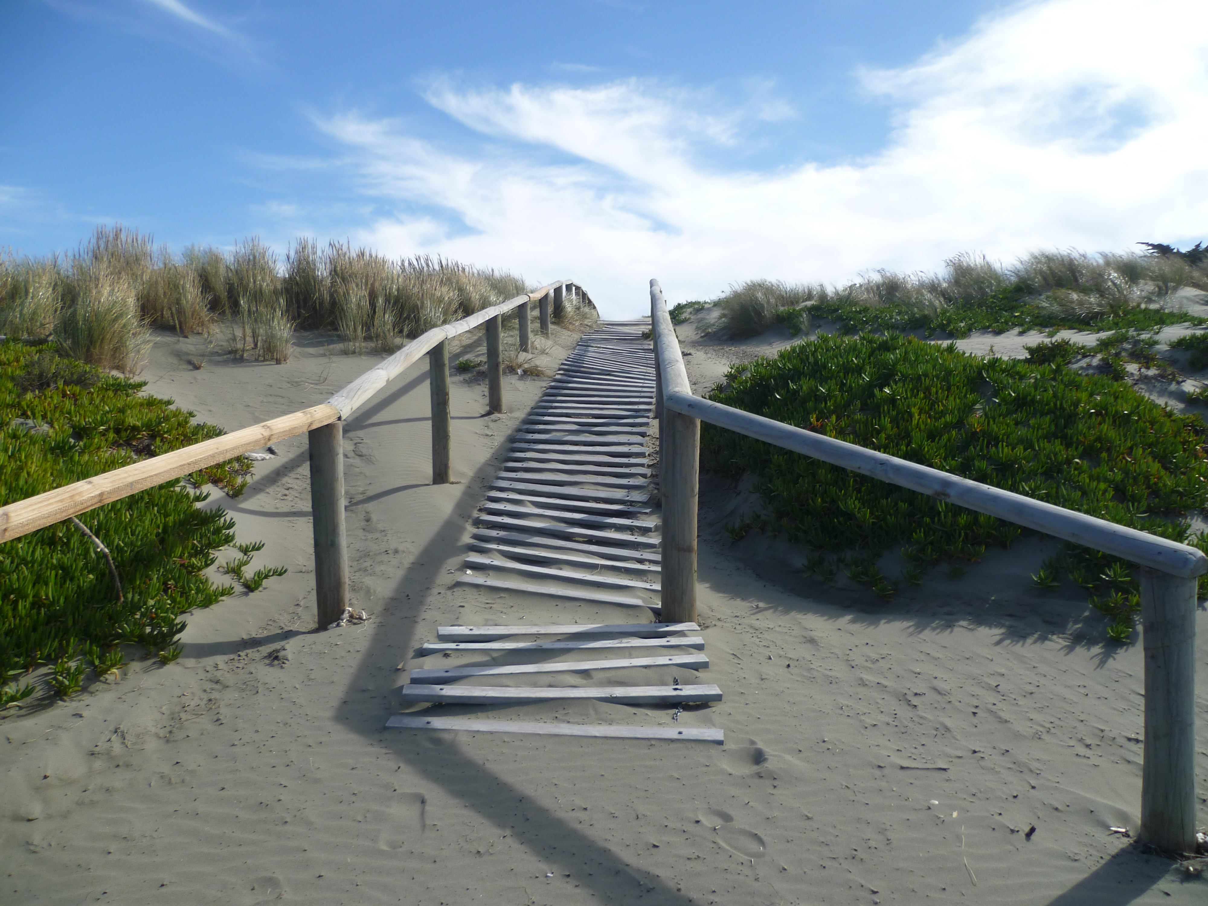 Walkway over sand dunes at New Brighton Beach, Christchurch, New Zealand